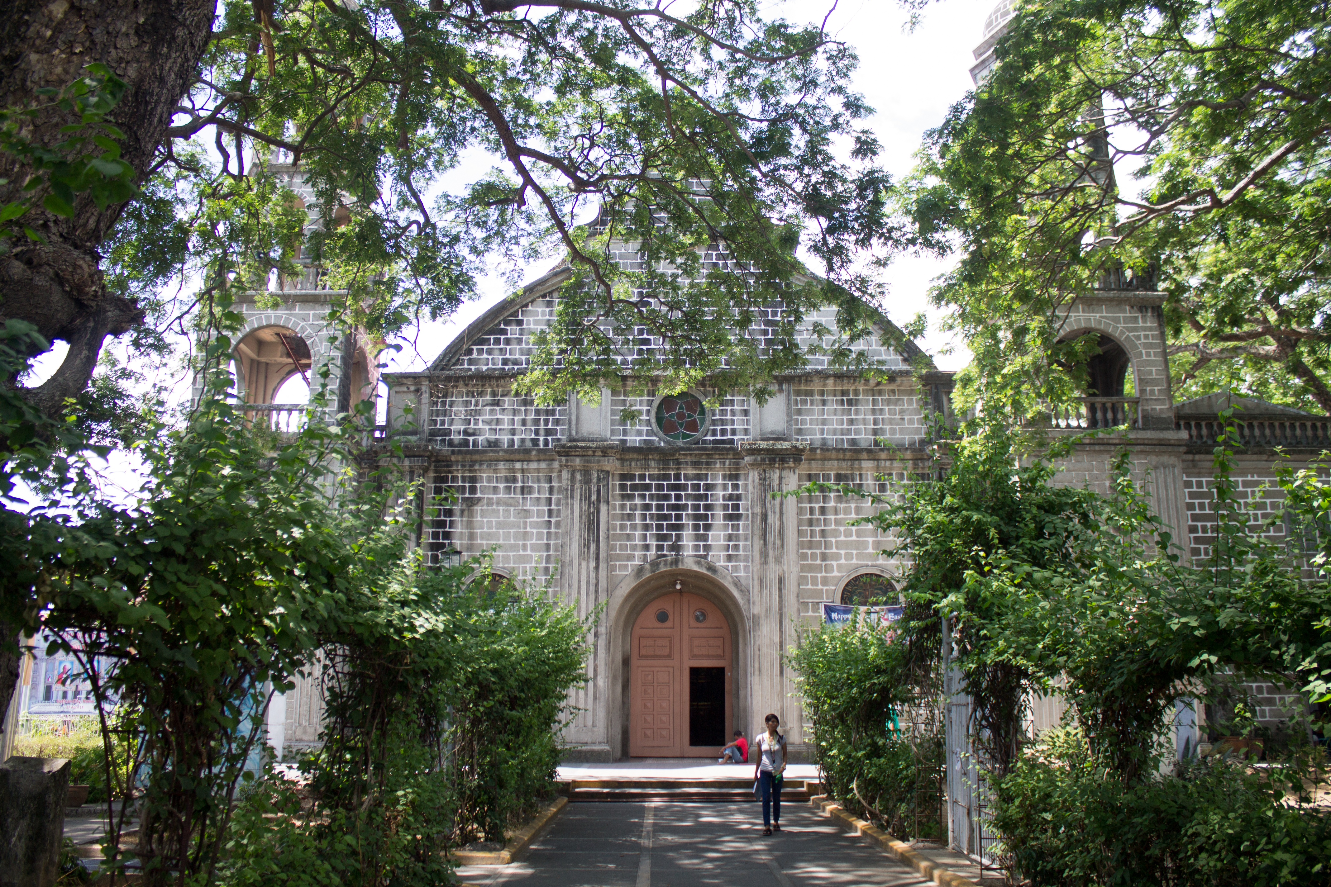 Catholic Church in Calamba, Laguna